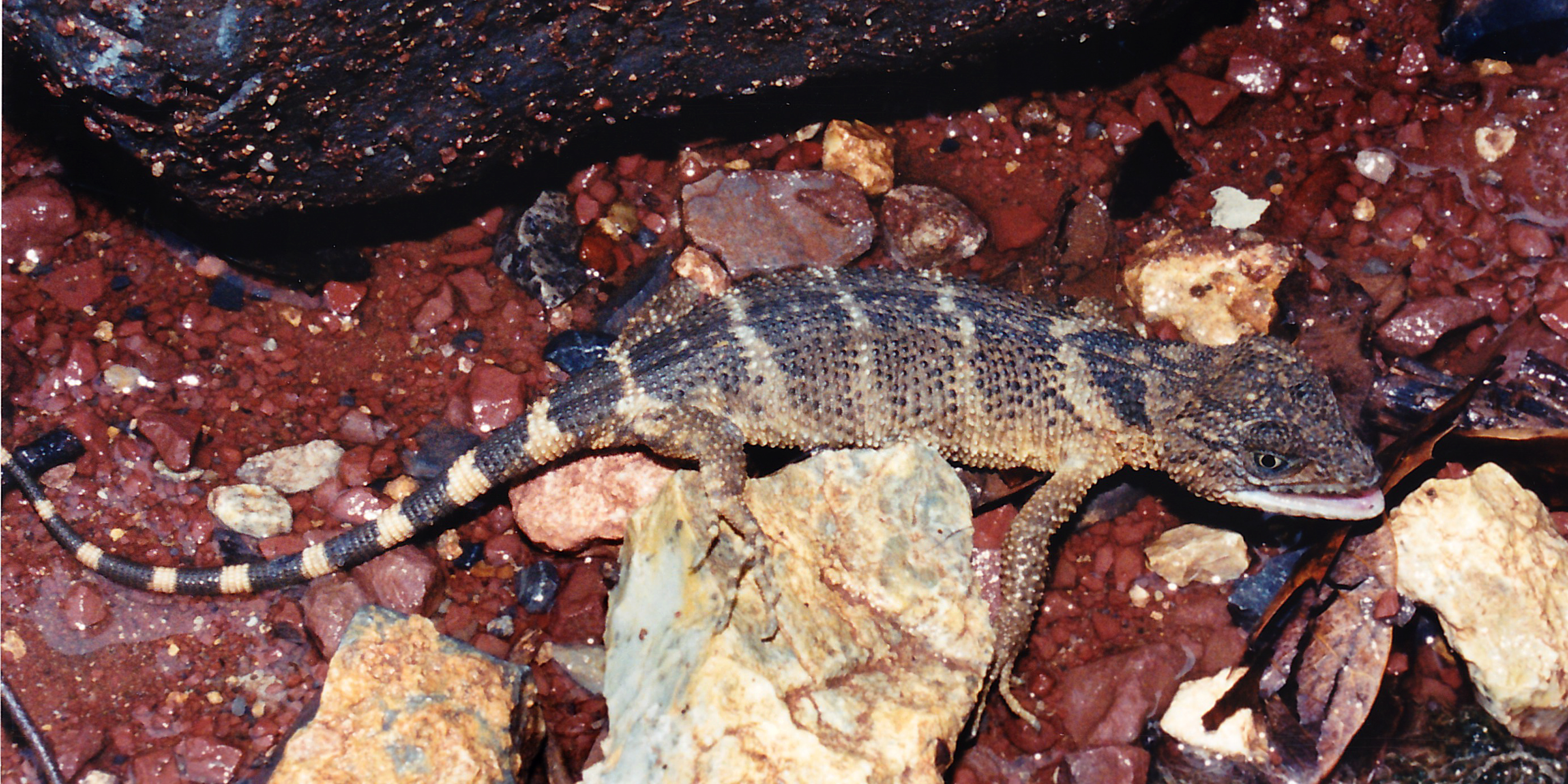 Flathead Knob-scaled Lizard (Xenosaurus platyceps), Family, Xenosauridae. This lizard was photographed in the vicinity of the type locality, west of Ciudad Victoria, Tamaulipas, Mexico 12 July 2004, William L. Farr